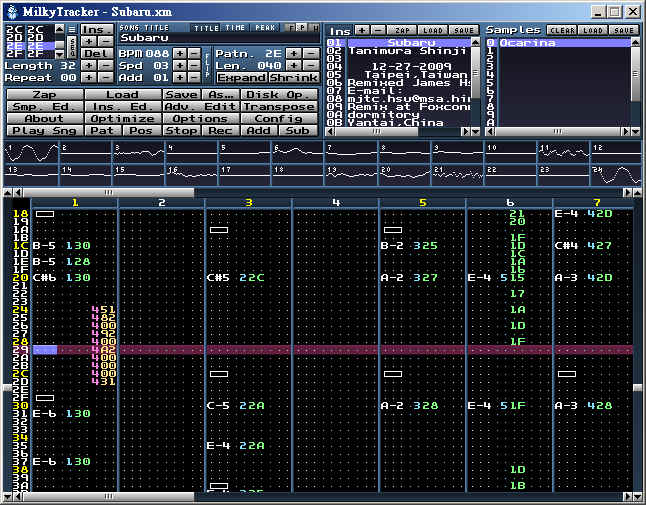 A screen copy of Milkytracker